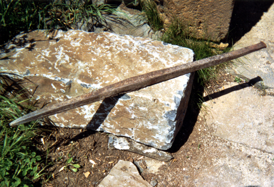 A bar, pry bar, spud bar